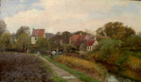 Painting of the watermill at Frederiksdal north of Copenhagen, Denmark Dimensions 50 x 84 cm.